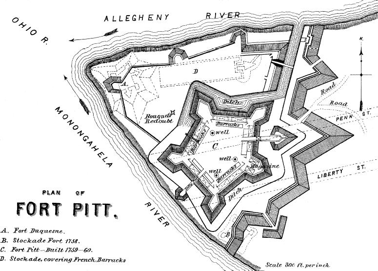 A detail of Fort Pitt, Pennsylvania, taken from Plate IV of "History of Allegheny Co., Pennsylvania